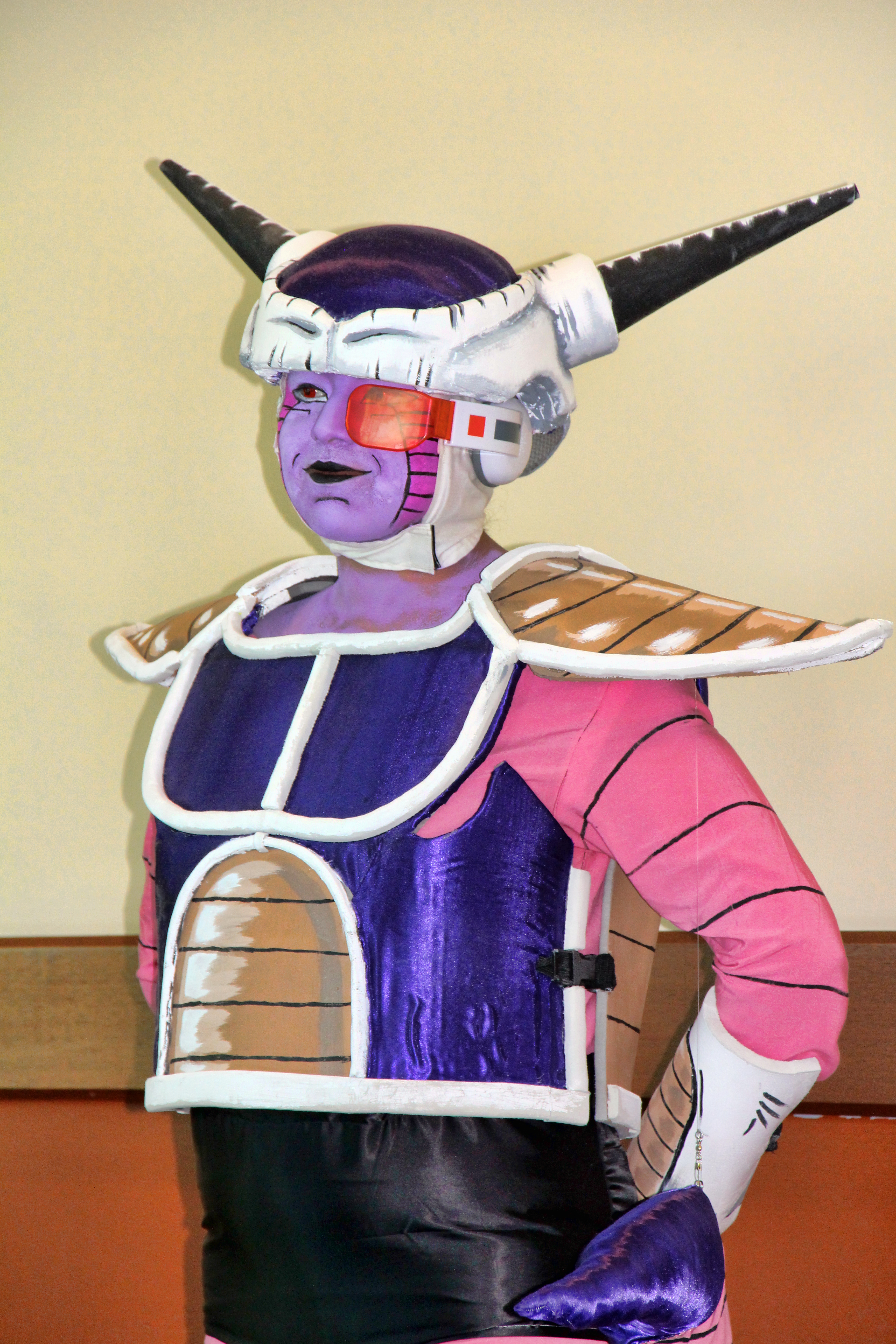 Frieza: 2015 Calgary Expo – Calgary Comic & Entertainment Expo